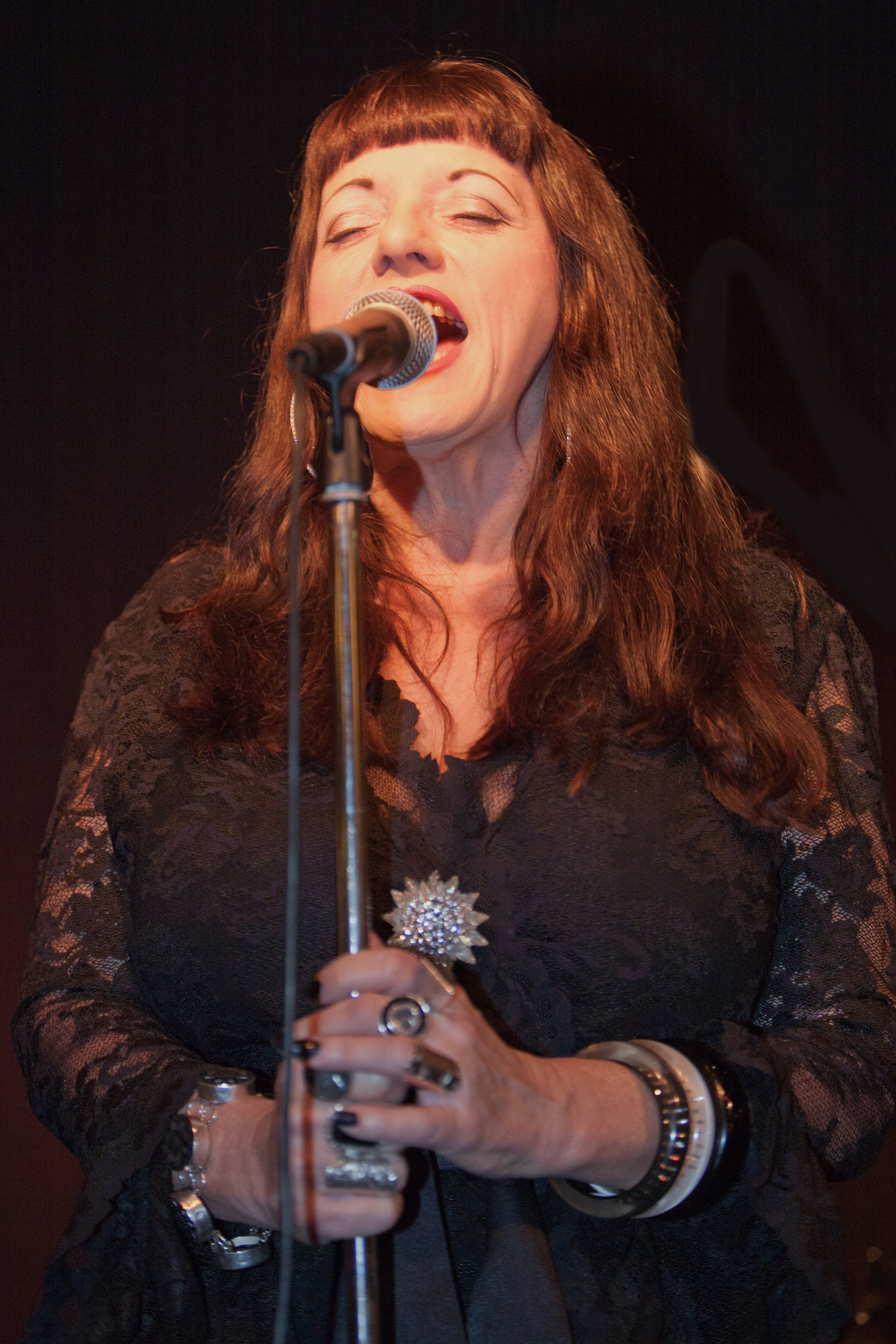 Candye Kane at Akkurat Stockholm March 2012